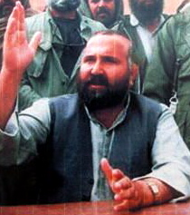 Photo made by myself.